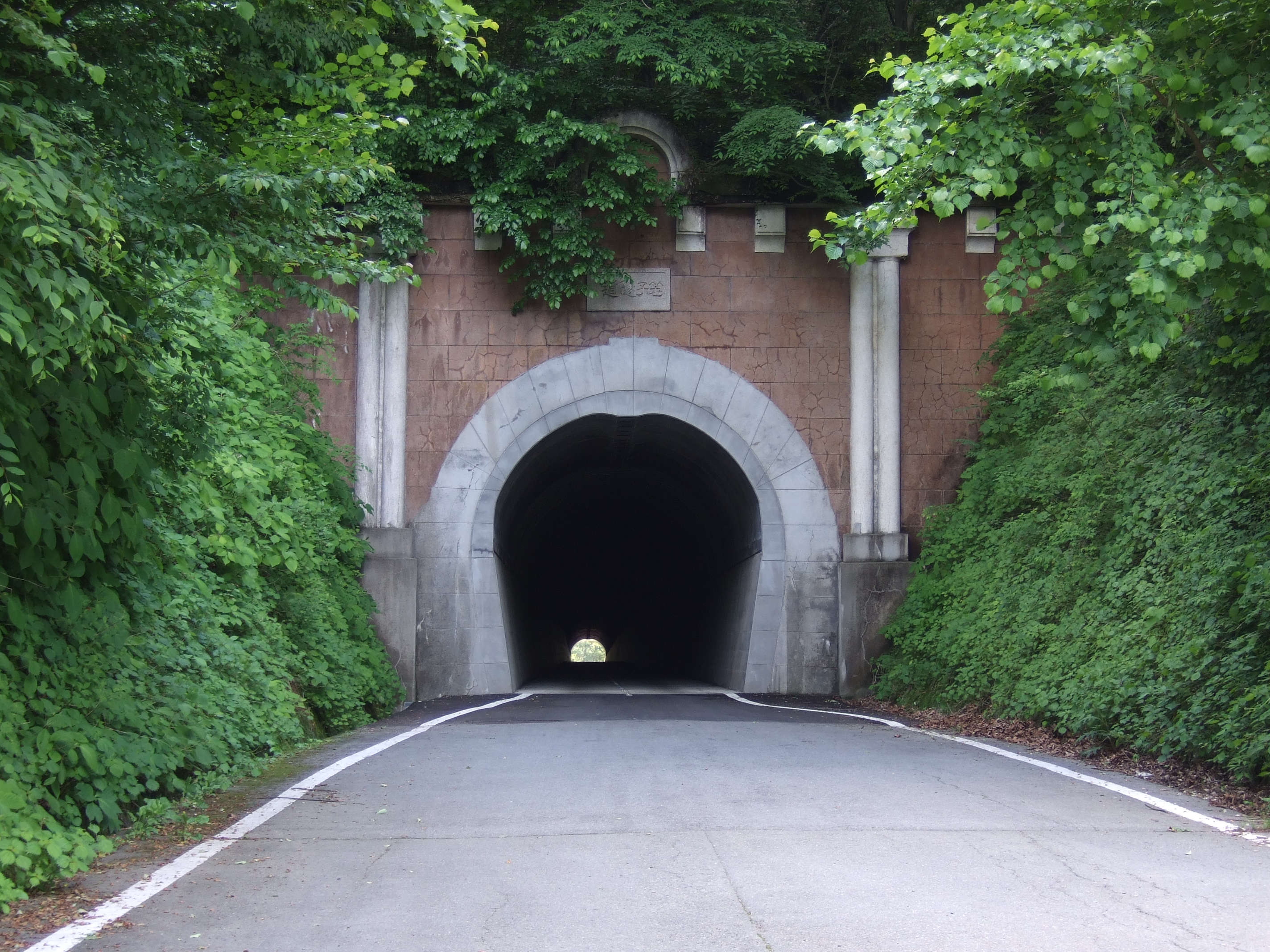 Ootuki side of Sasago-zuidou(tunnel), Yamanasi prefectural route 212 (formerly national route 20), Japan